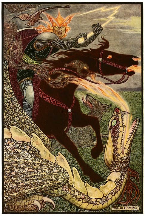 Illustration from "The Russian Story Book" by Richard Wilson, illustrated by Frank C. Papé, 1916